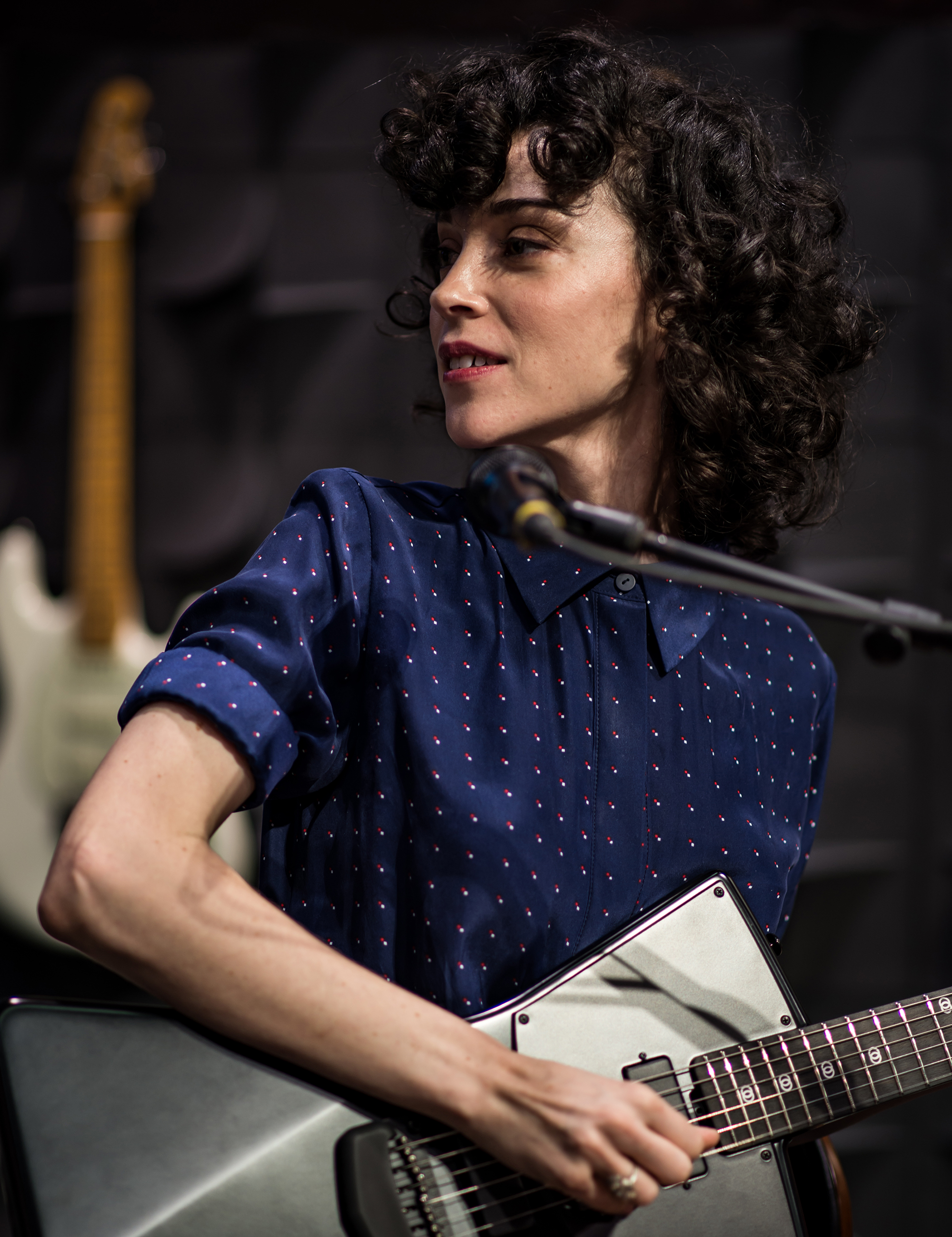 St. Vincent (Annie Clark) interview and live demo in the Ernie Ball booth at the Winter NAMM Show in Anaheim California on Thursday January 19, 2017.